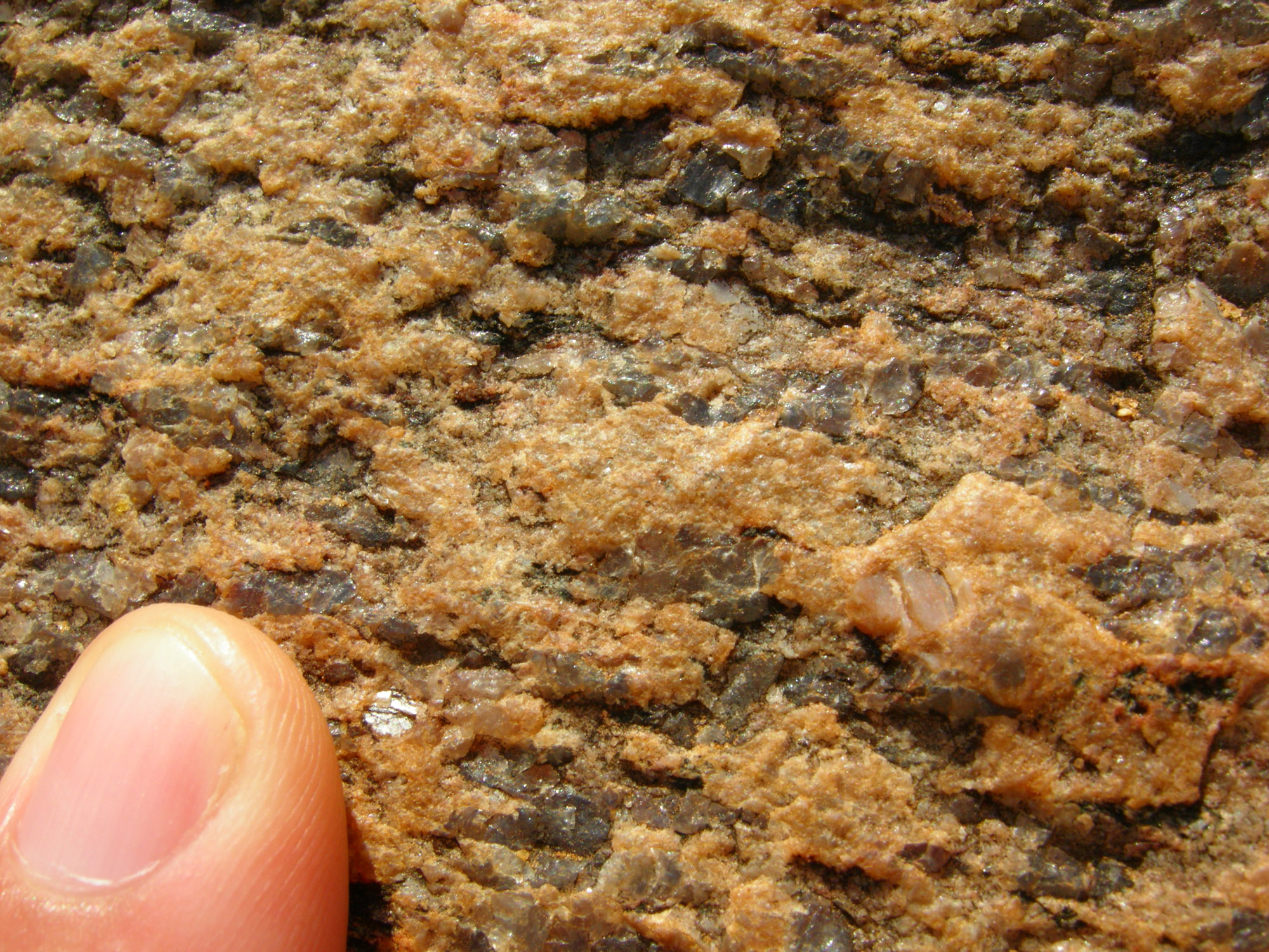 Close-up of granite in Chennai, India.